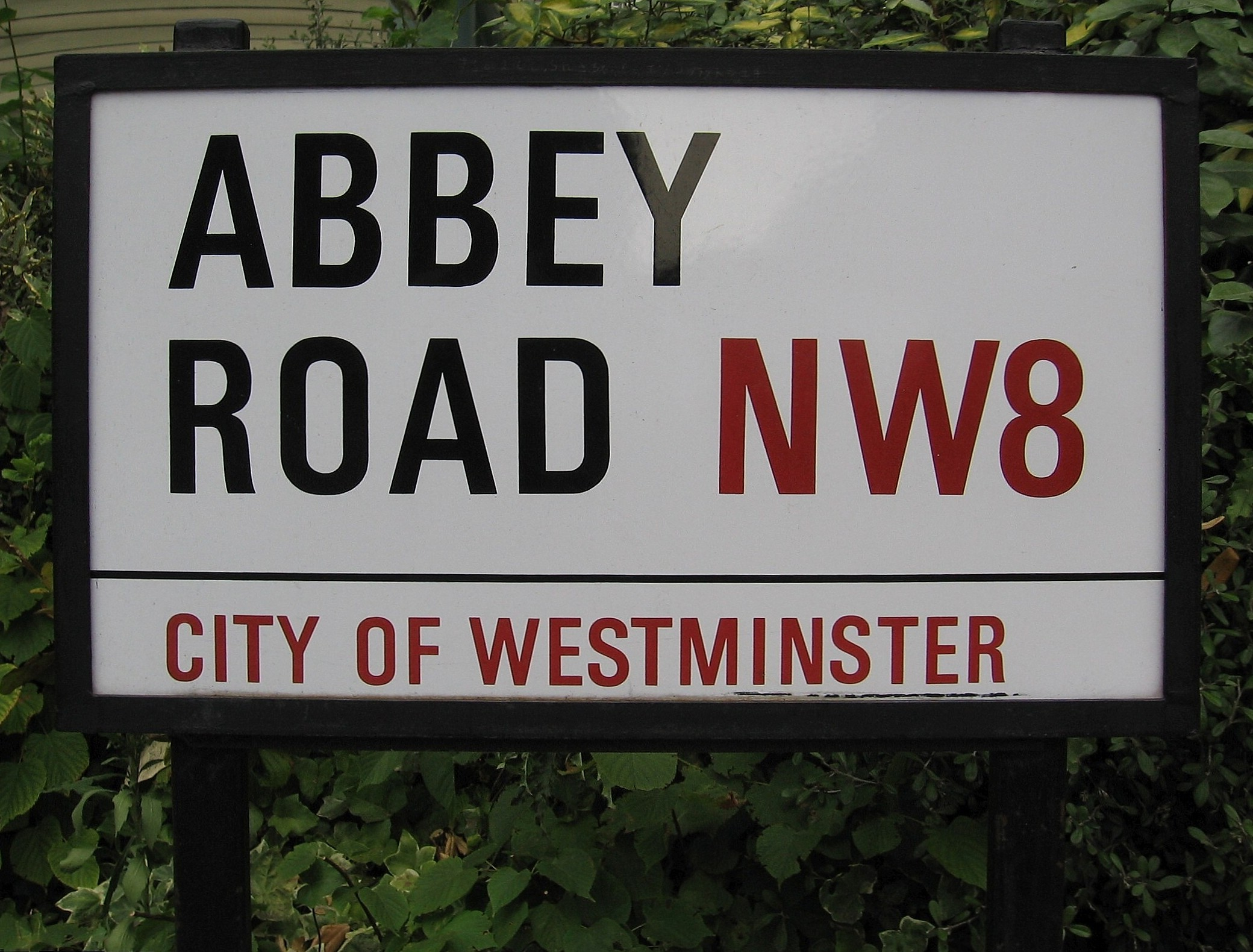 Street sign for Abbey Road, in Westminster, London, England.